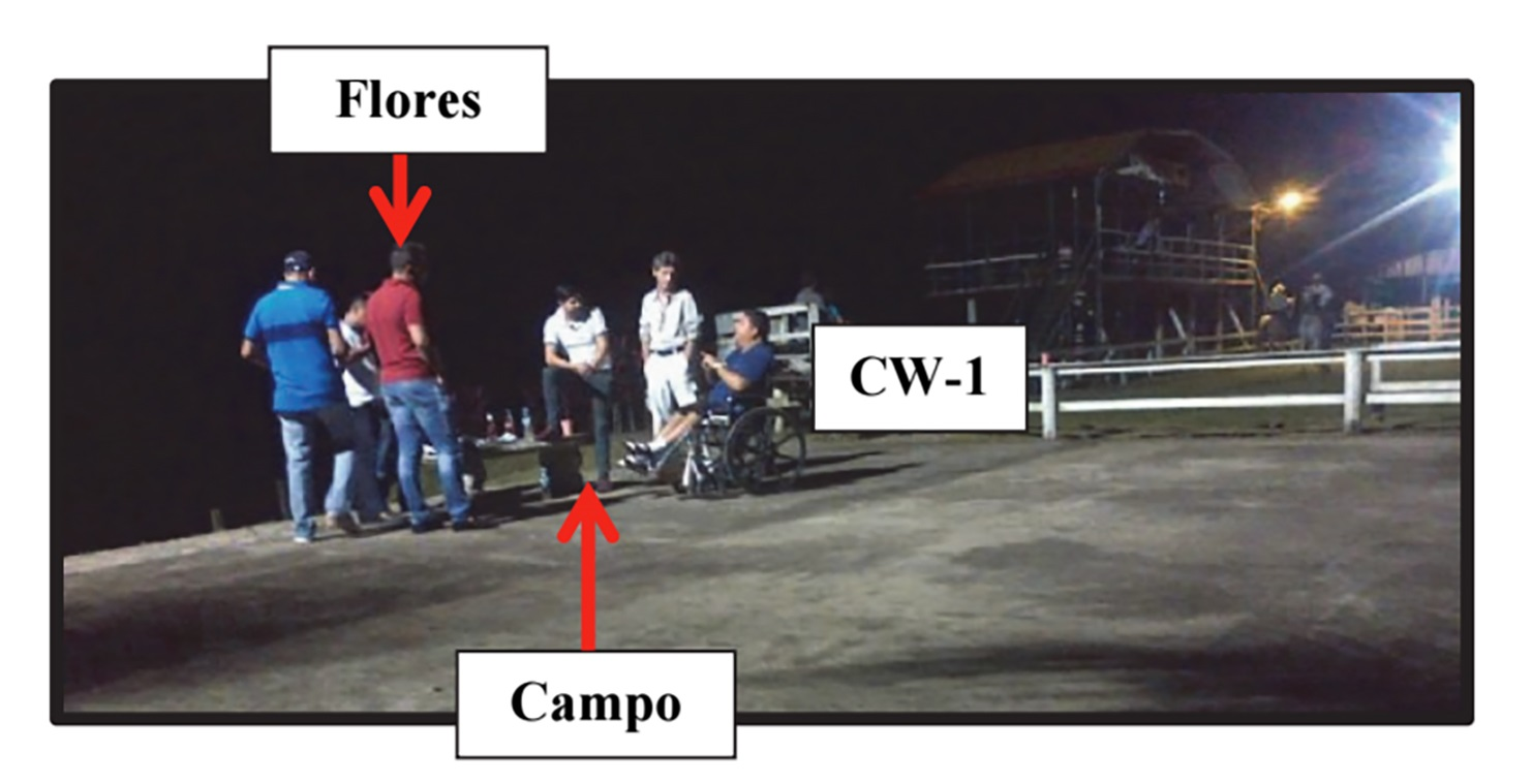 Efraín Antonio Campos Flores and Francisco Flores de Freitas meeting with DEA informant CW-1, who is in a wheelchair.